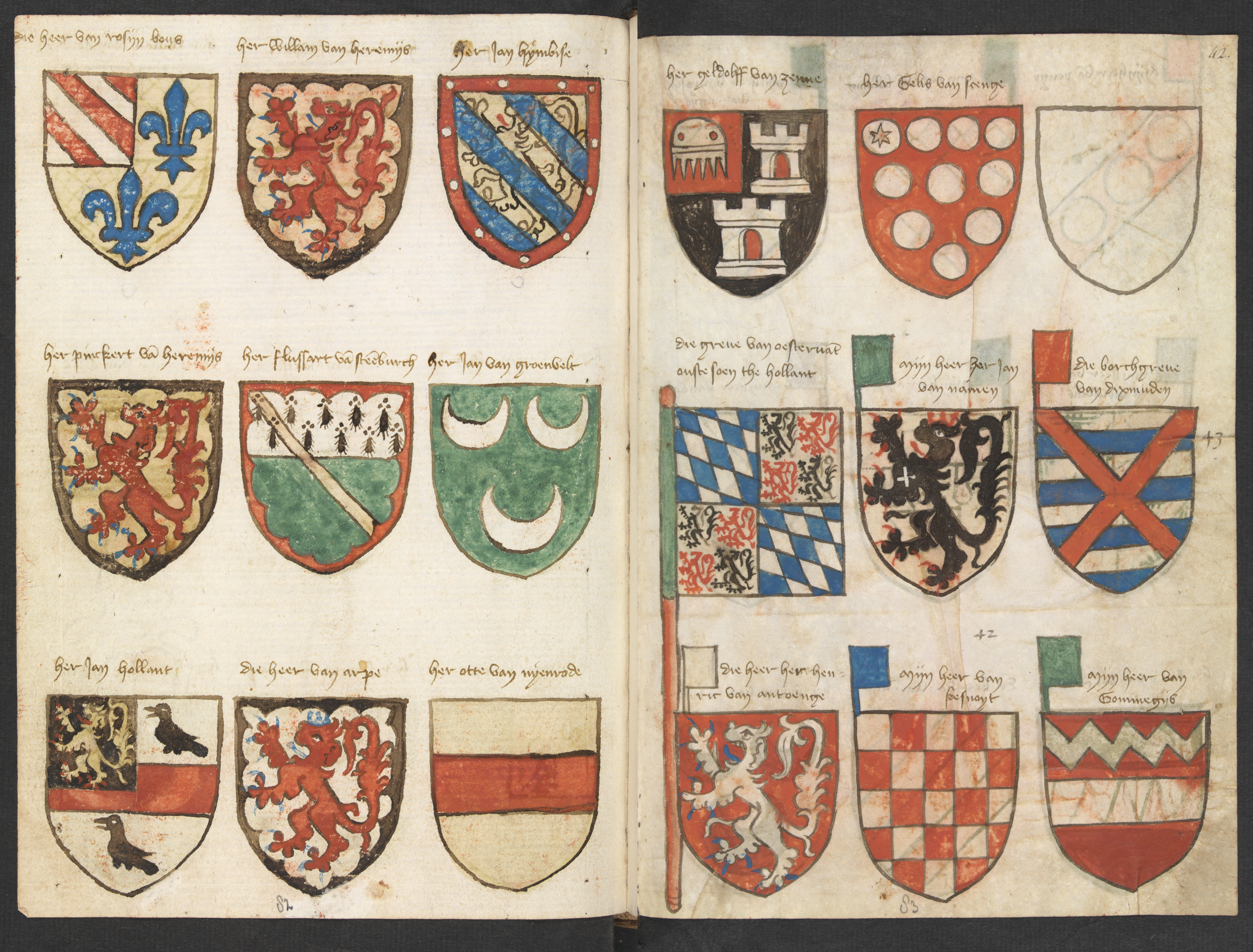 Lefthand side folio 041v; righthand side folio 042r from the Beyeren armorial / Wapenboek Beyeren